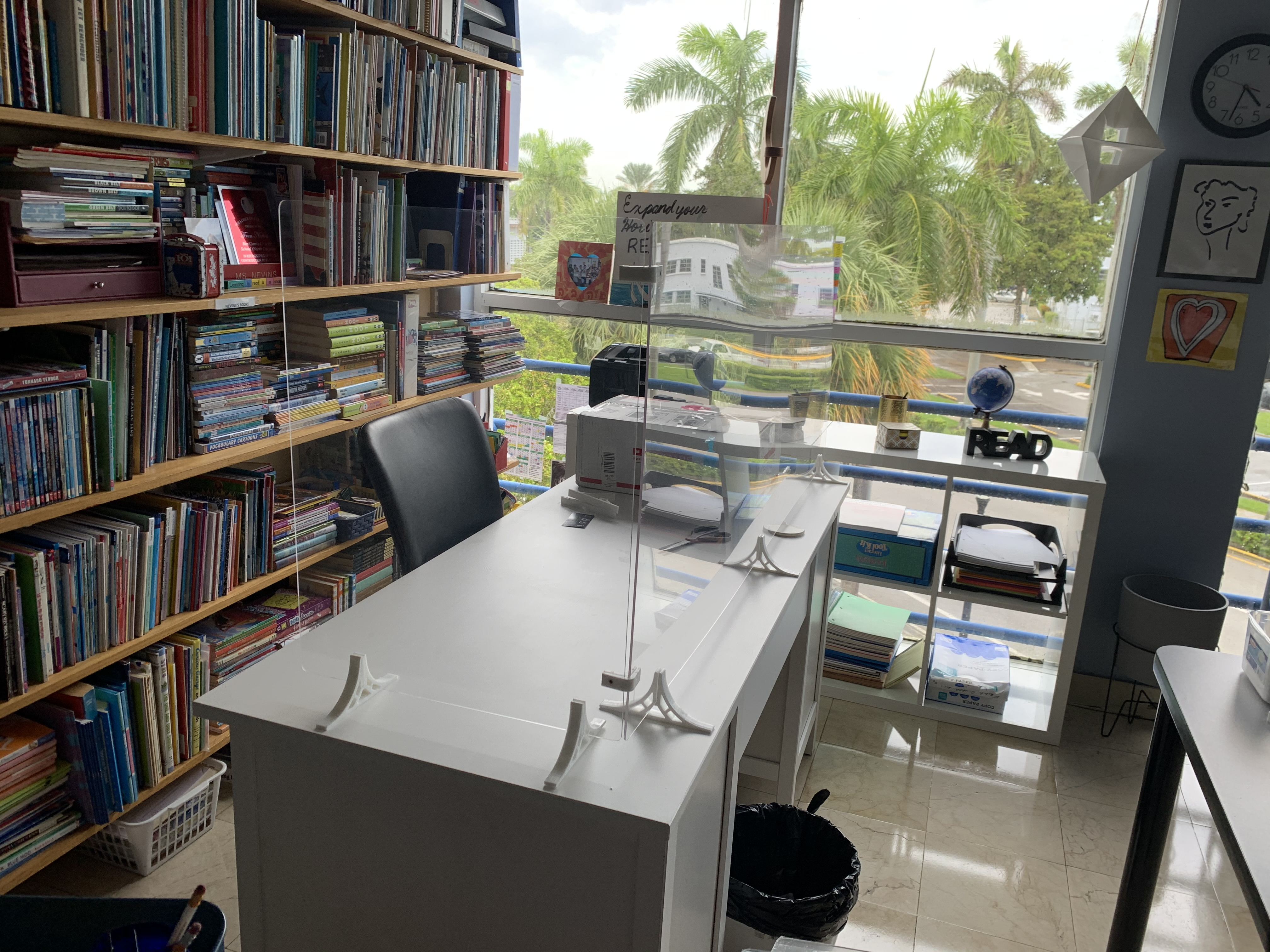 Sneeze guard in a children's library